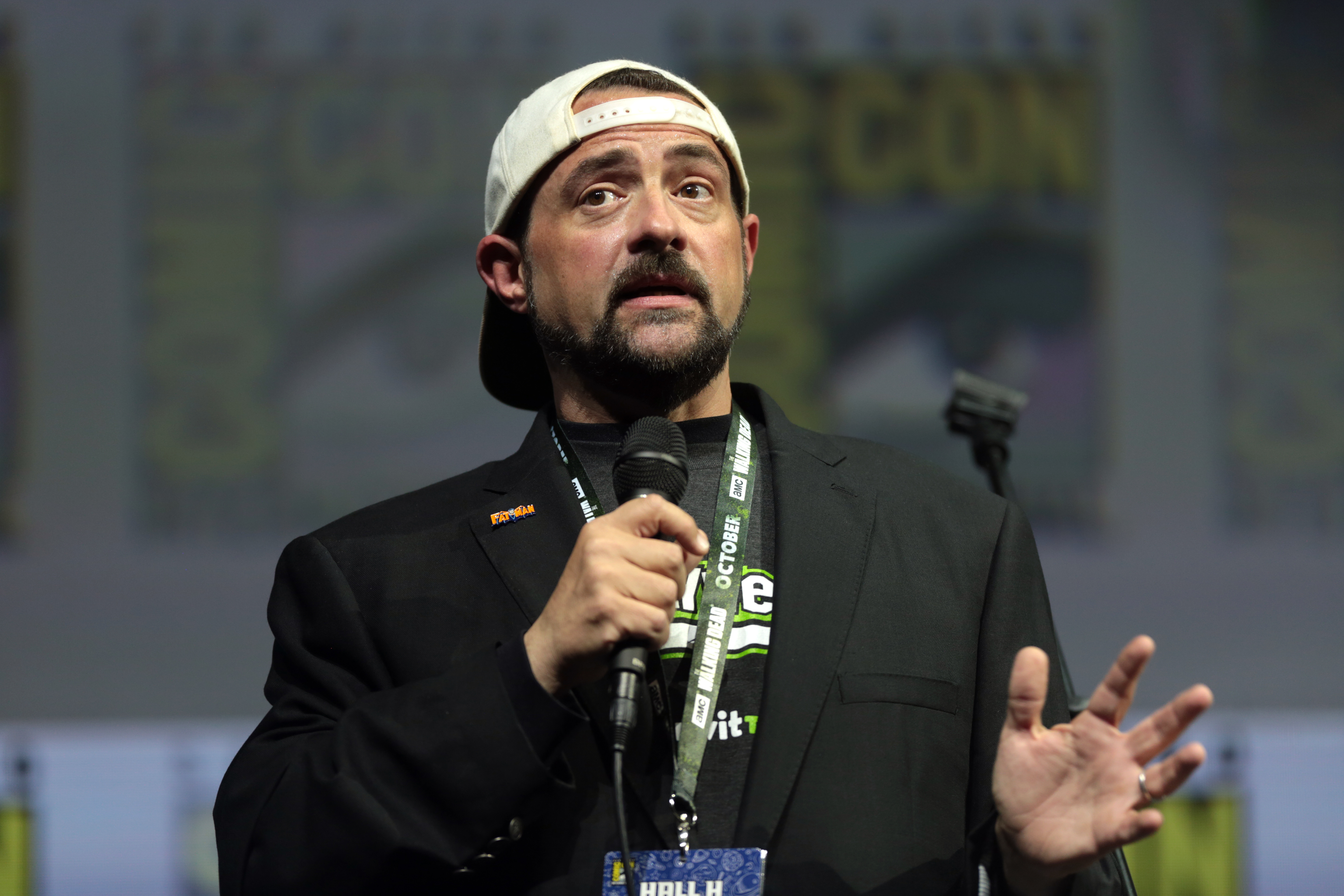 Kevin Smith speaking at the 2018 San Diego Comic Con International at the San Diego Convention Center in San Diego, California.